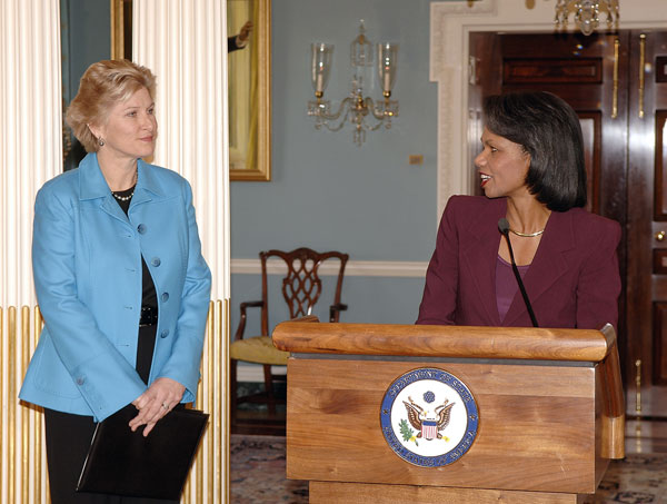 Karen Hughes and Condoleezza Rice